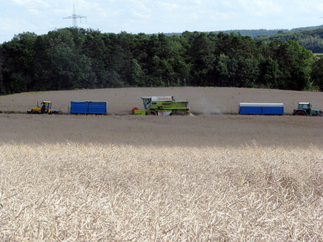 Combine harvester 'Dominator 108SL' manufactured by Claas in action